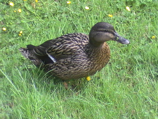 Een jonge eend